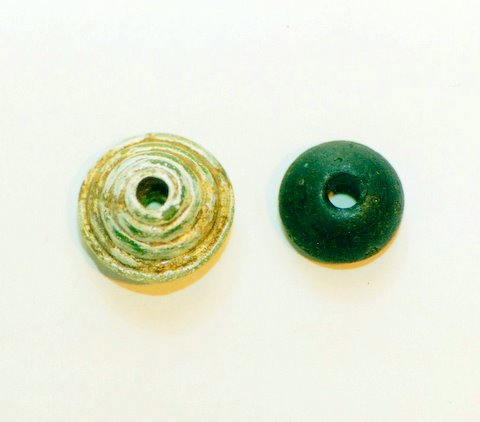 Spindle whorls Roman periode of glass.